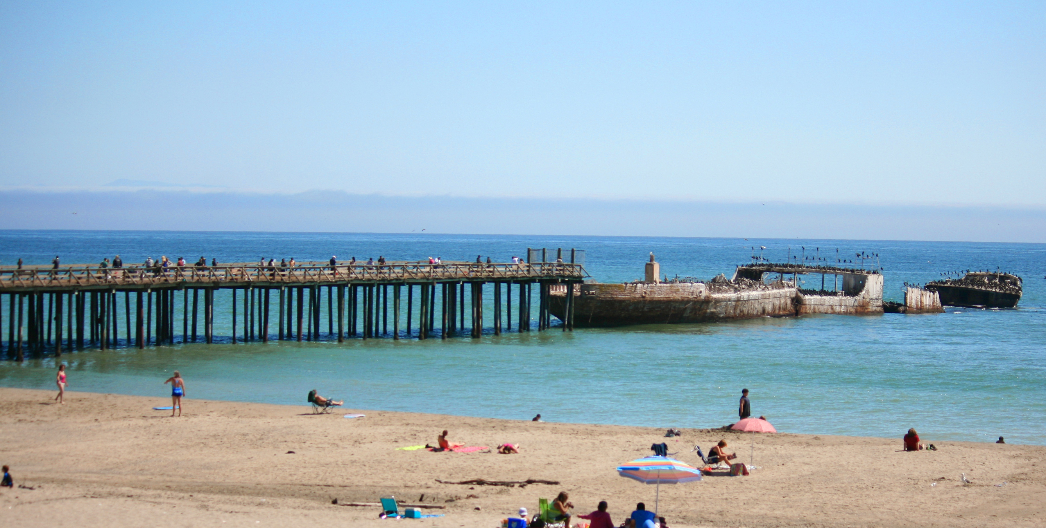 The famous "Cement Ship" at Seacliff State Beach in Aptos, California when it was still largely congruent.